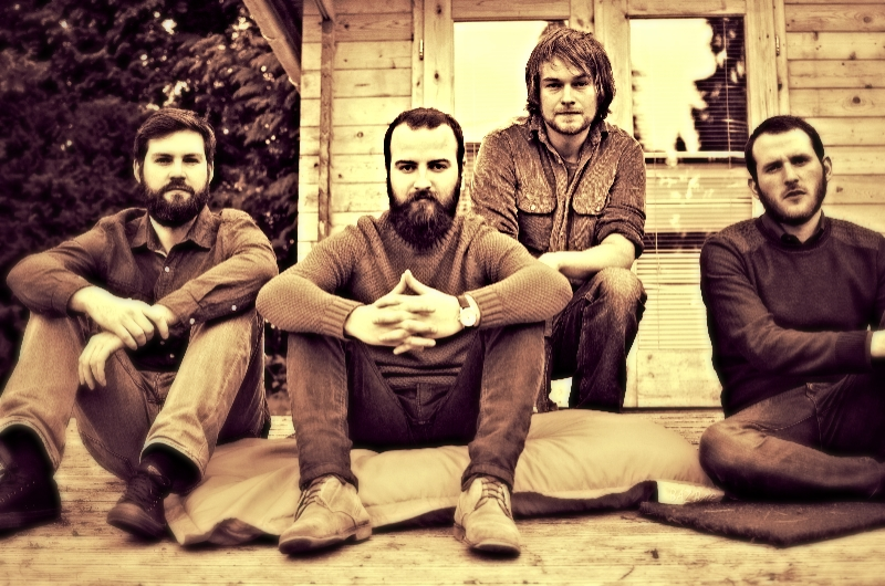 Climbing Trees at BBC Cymru Wales, April 2014 /// Shot by Mary Wycherley of Two Cats In The Yard